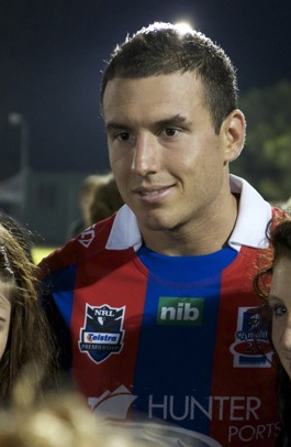 Darius Boyd getting pictures